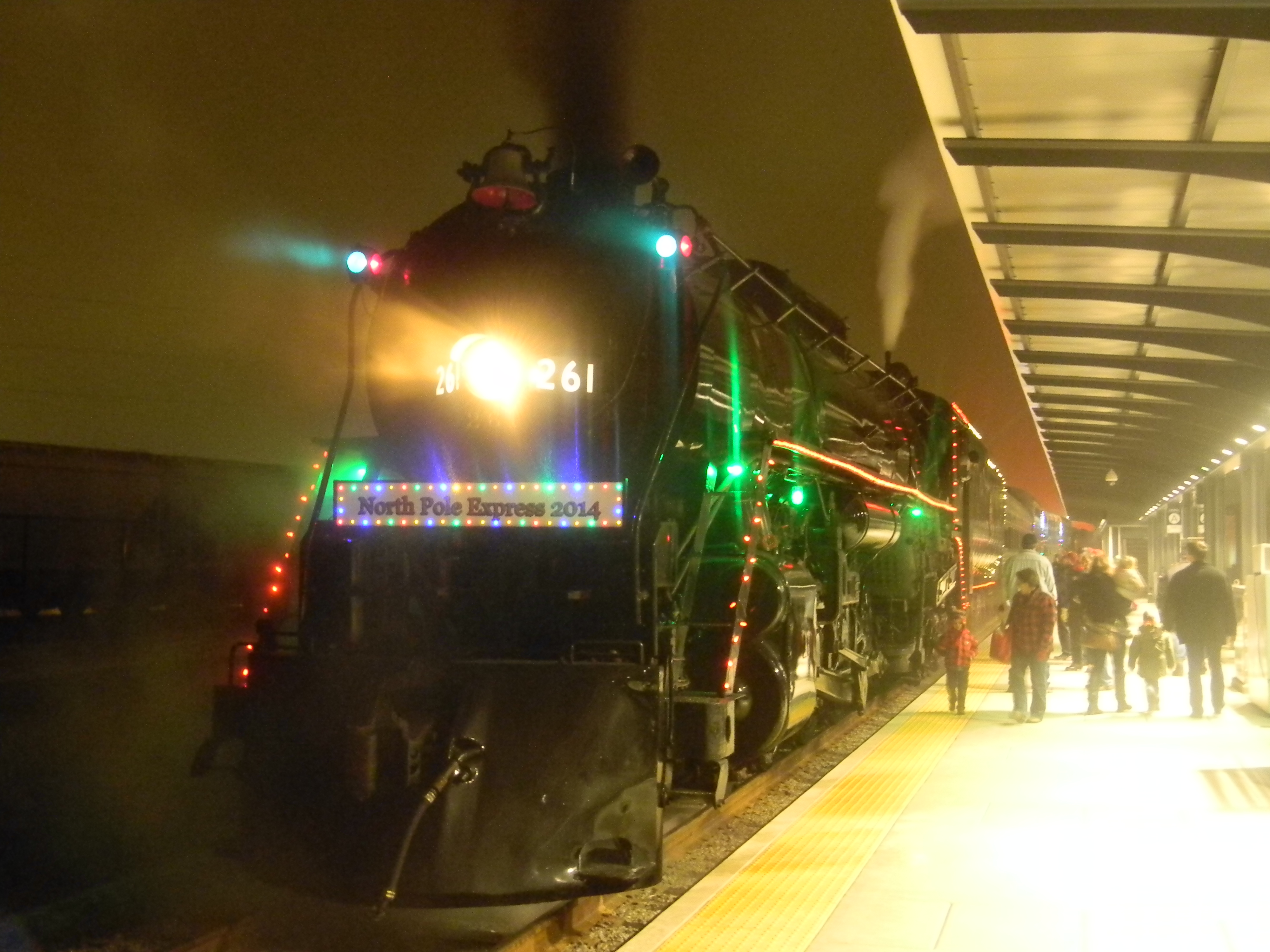 Milwaukee Road 261 decorated as the North Pole Express in 2014 at St. Paul Union Depot